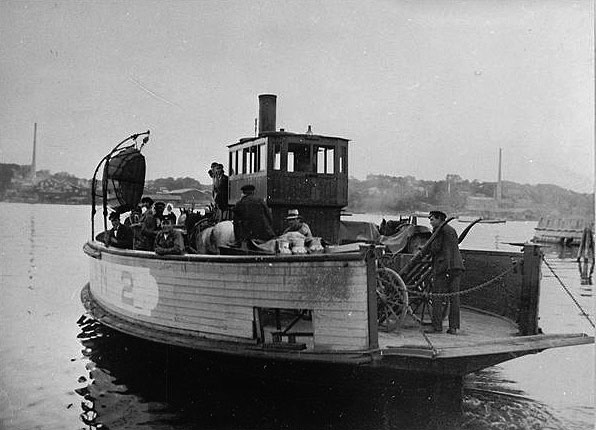 Ferryboat "Färjan 2". Nickname "Bonnafröjda". Route: Klippan-Färjenäs, Port of Gothenburg, Sweden. Appr. 1925